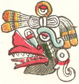 The Aztec day sign ehecatl (wind).